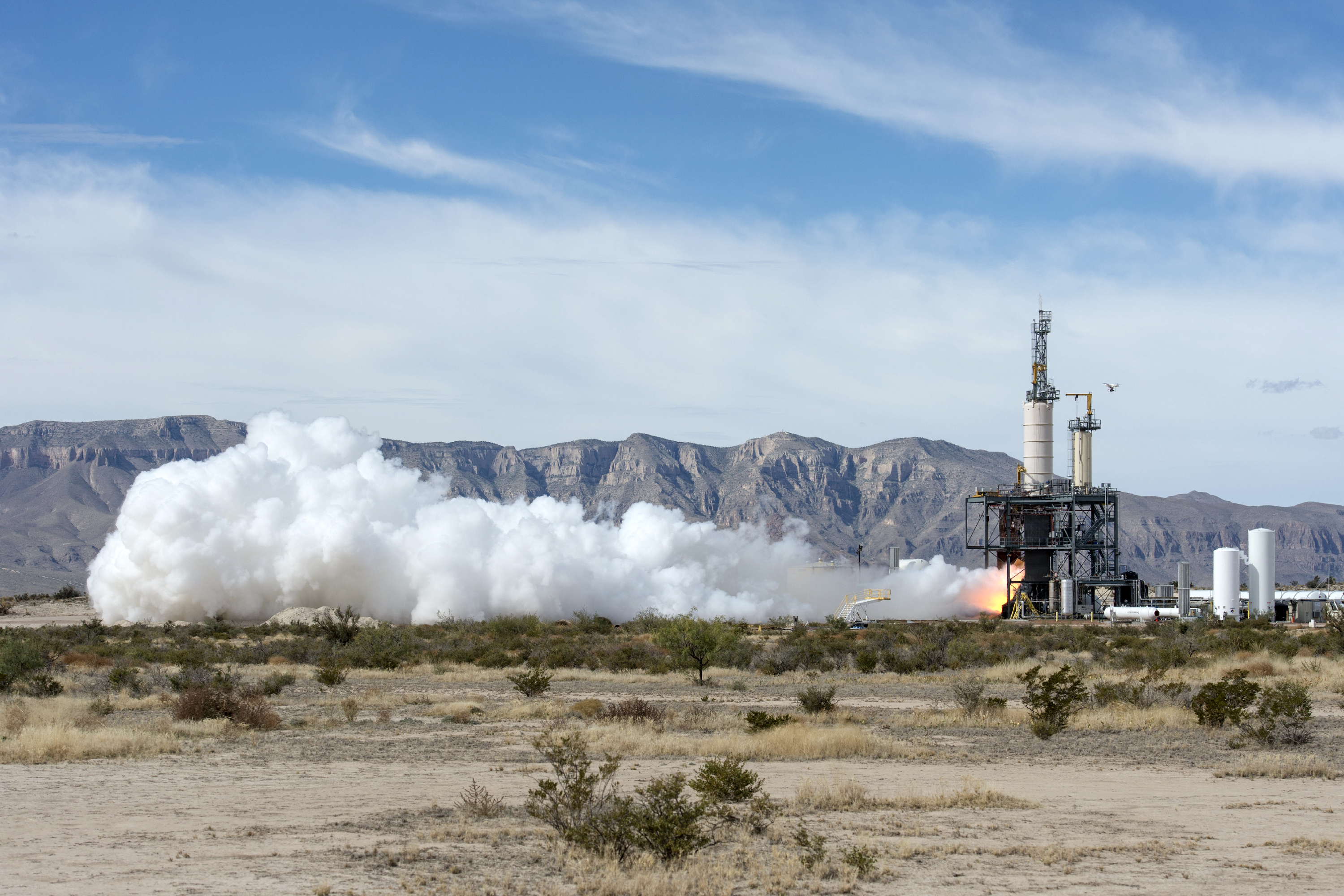 Blue Origin test fires a powerful new hydrogen- and oxygen-fueled American rocket engine at the company's West Texas facility. During the test, the BE-3 engine fired at full power for more than two minutes to simulate a launch, then paused for about four minutes, mimicking a coast through space before it re-ignited for a brief final burn. The last phase of the test covered the work the engine could perform in landing the booster back softly on Earth. Blue Origin, a partner of NASA’s Commercial Crew Program, or CCP, is developing its Orbital Launch Vehicle, which could eventually be used to launch the company's Space Vehicle into orbit to transport crew and cargo to low-Earth orbit. CCP is aiding in the innovation and development of American-led commercial capabilities for crew transportation and rescue services to and from the station and other low-Earth orbit destinations by the end of 2017.